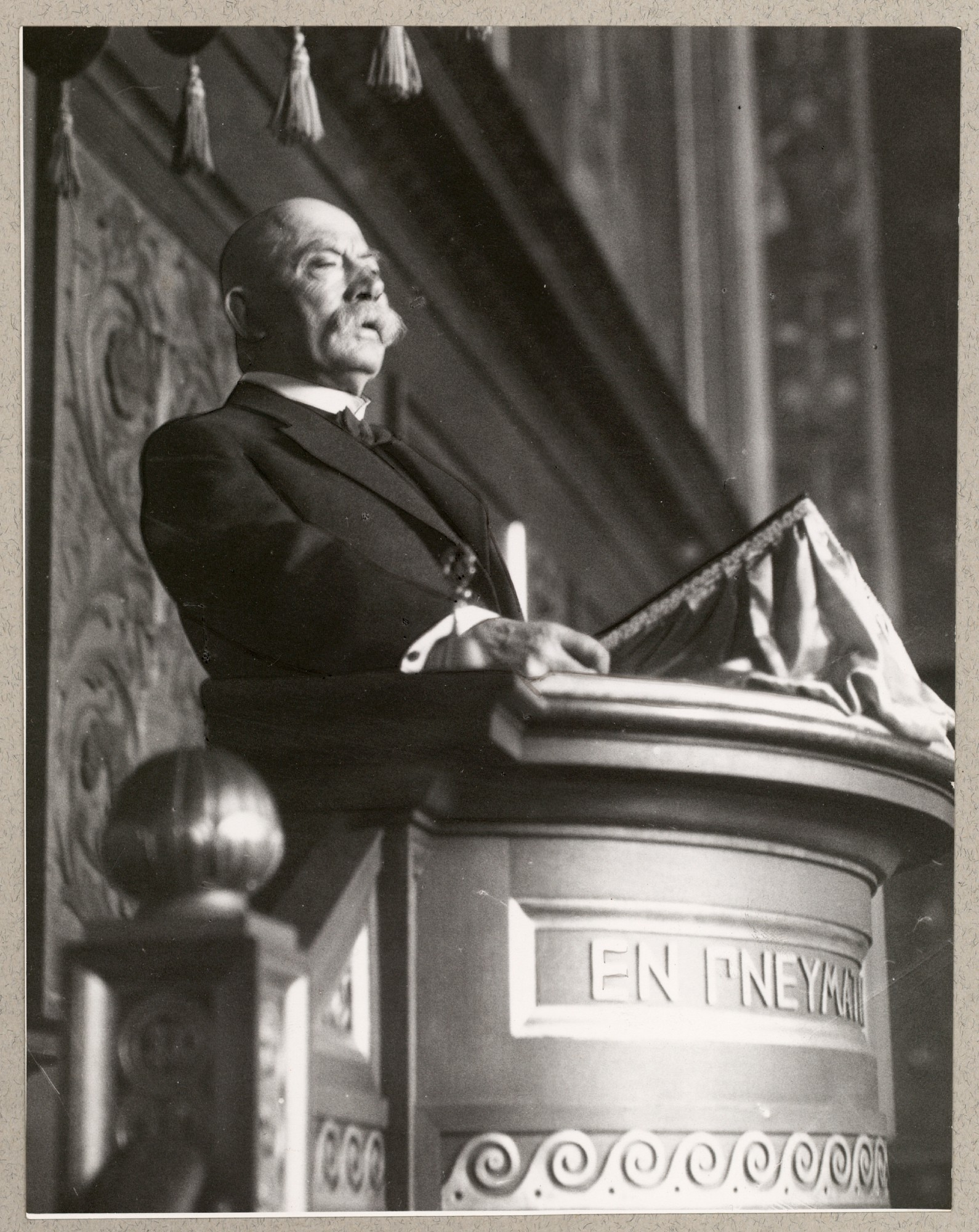 Professor Johannes Østrup lecturing at Copenhagen University.